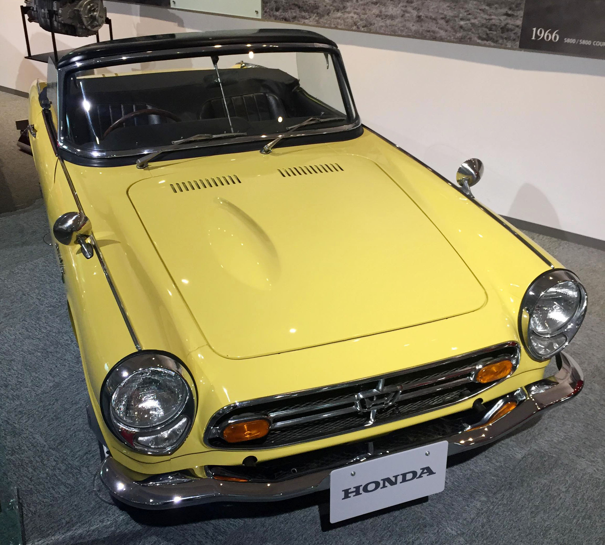 Honda S800 display at Honda Collection Hall in Motegi